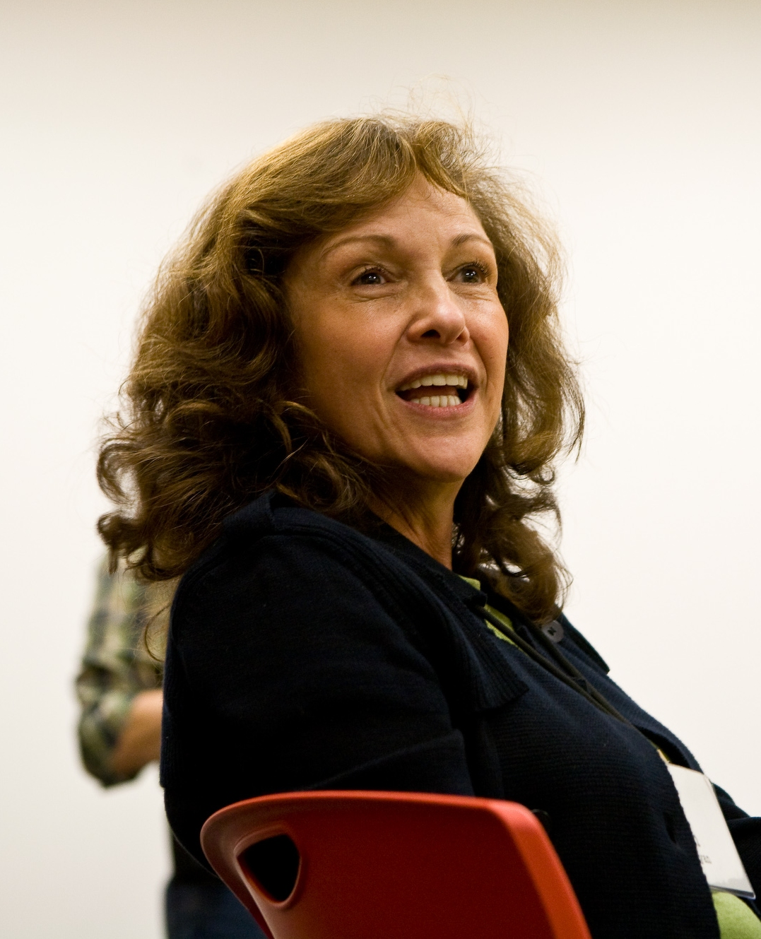 Ann Druyan (born June 13, 1949) is an American author and media producer known for her involvement in many projects aiming to popularize and explain science. She is probably best-known as the last wife of Carl Sagan, and co-author of the Cosmos series and book, along with Sagan and Steven Soter